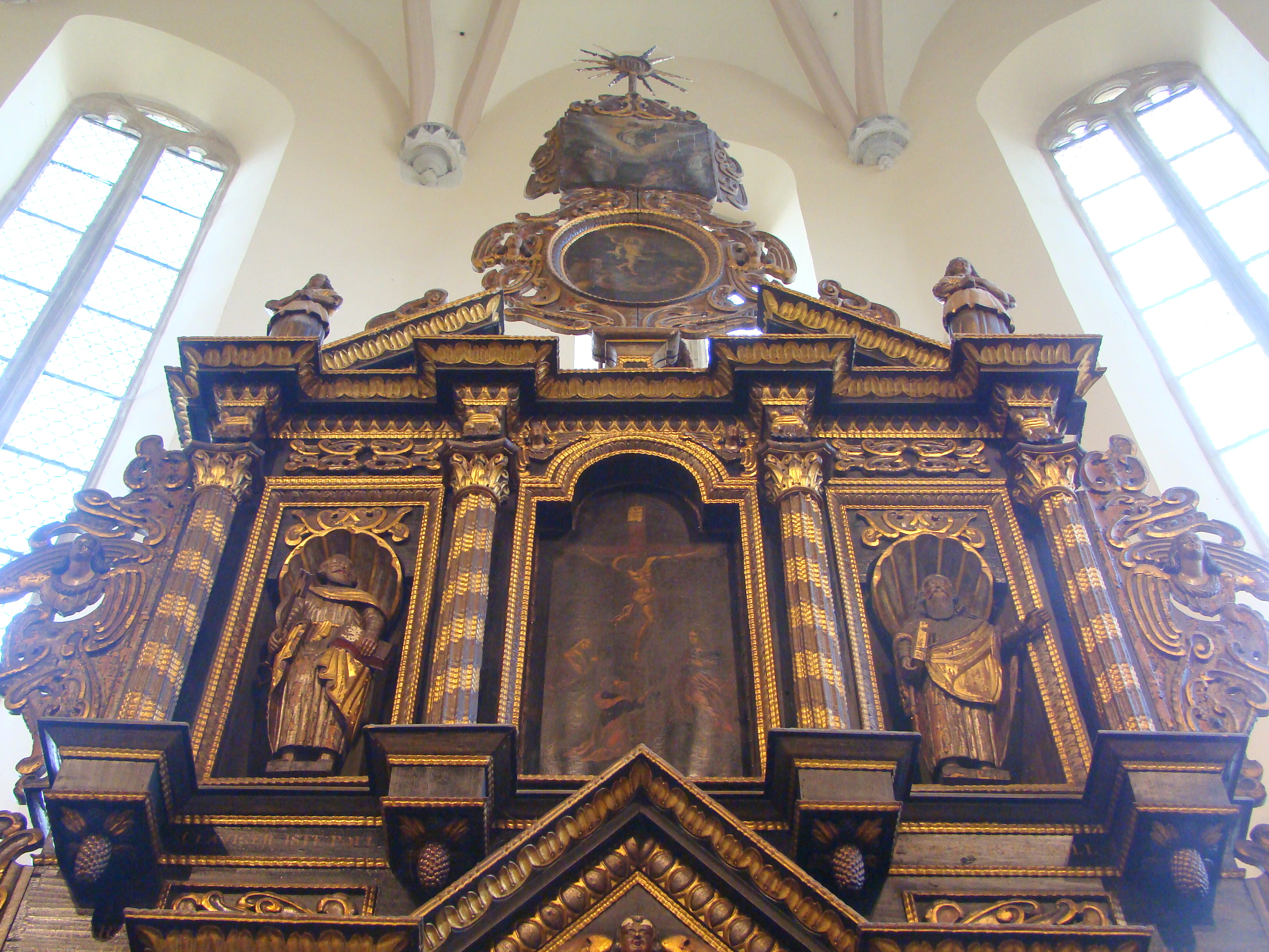 Lutheran church in Bistrița